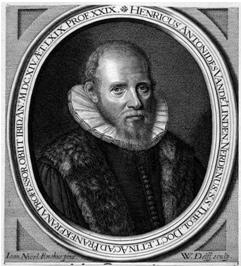 Henricus Antonides Nerdenus